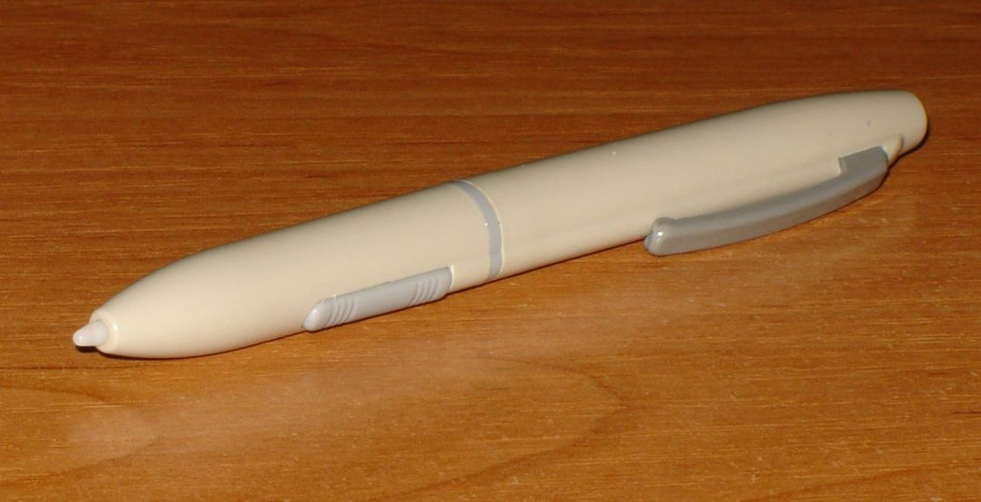 Stylus attached to graphics tablet.